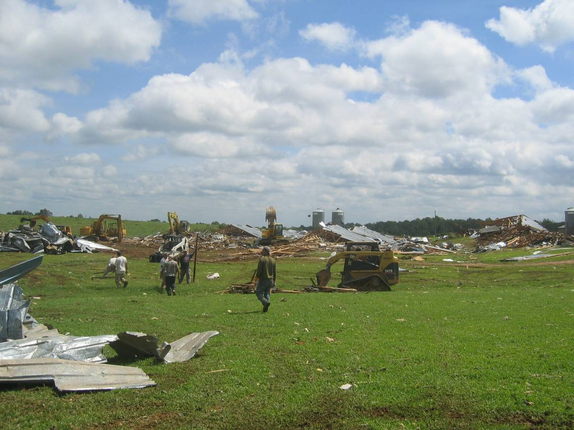 Damage to a poultry farm in Carroll County, Georgia, caused by an F2 tornado on August 29, 2005. One person was killed at the farm.